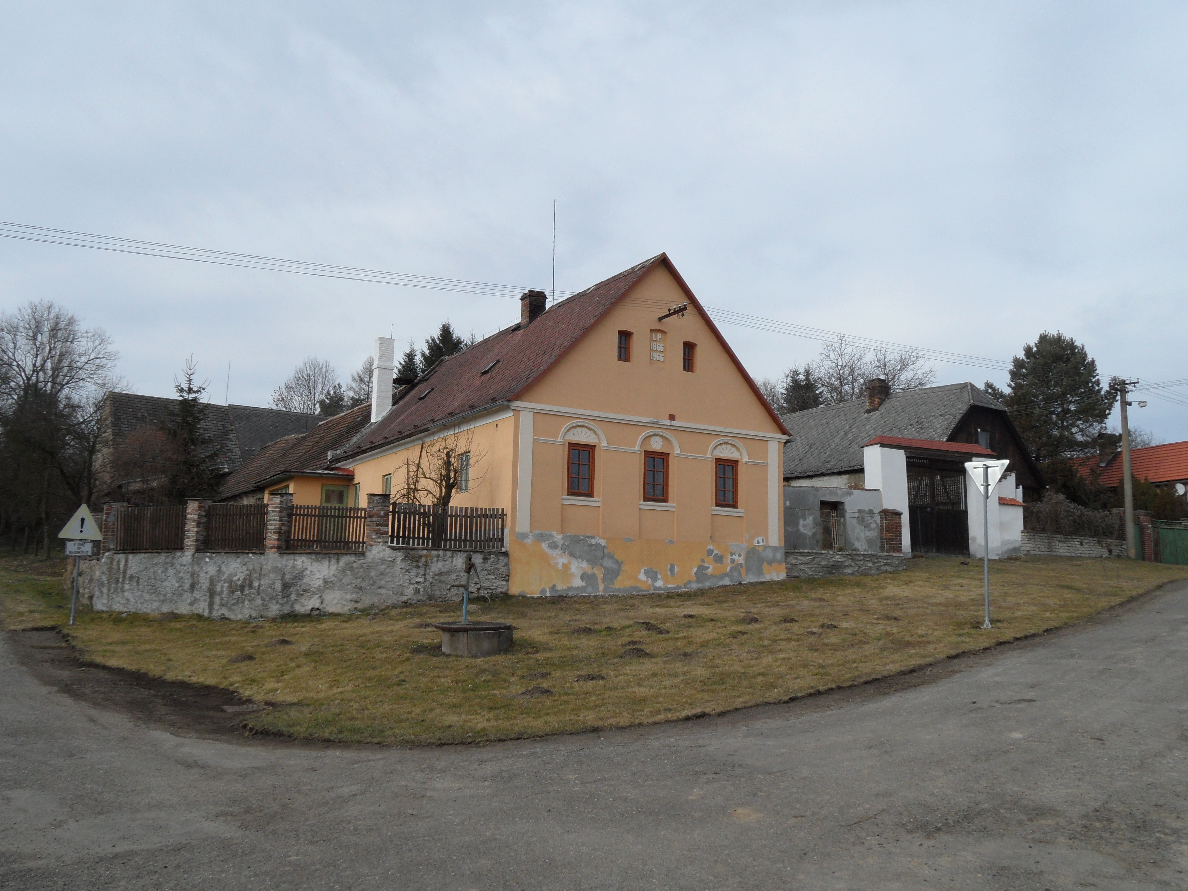 C. Houses on Street Going Up, Kutná Hora District, the Czech Republic.